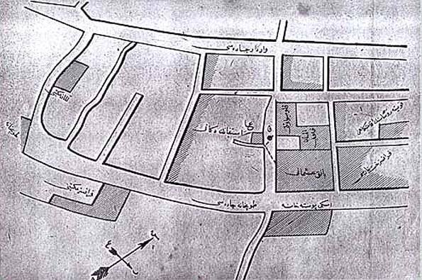 Map showing the places that Gemidjii blowed up in april 1903 in Thessaloniki